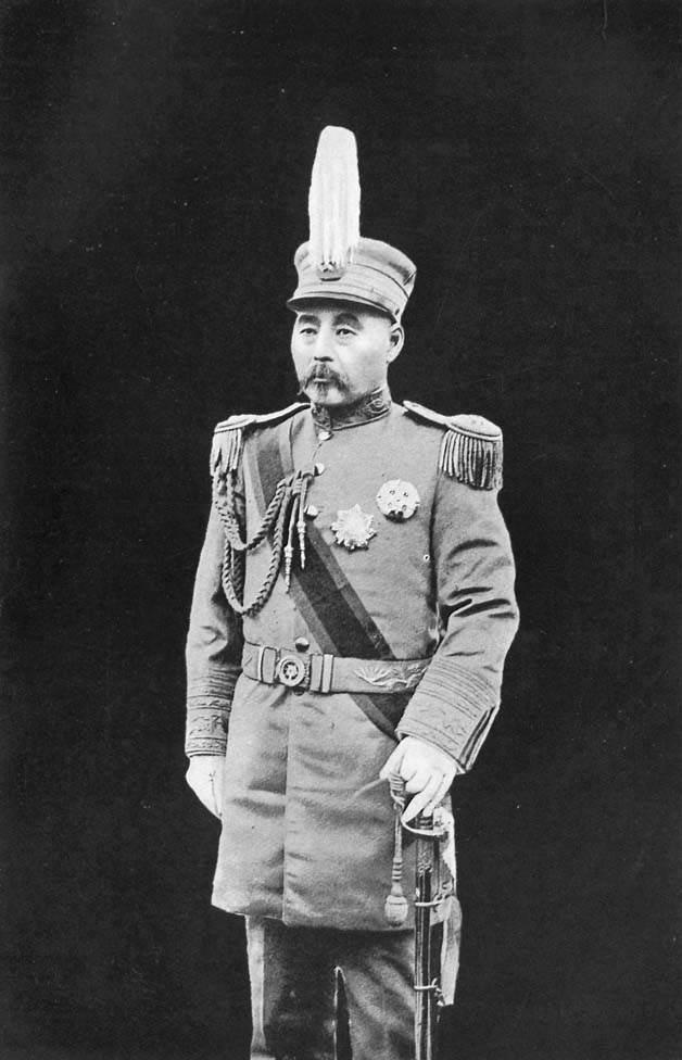 General Feng Kuo-chang, President of the Republic.